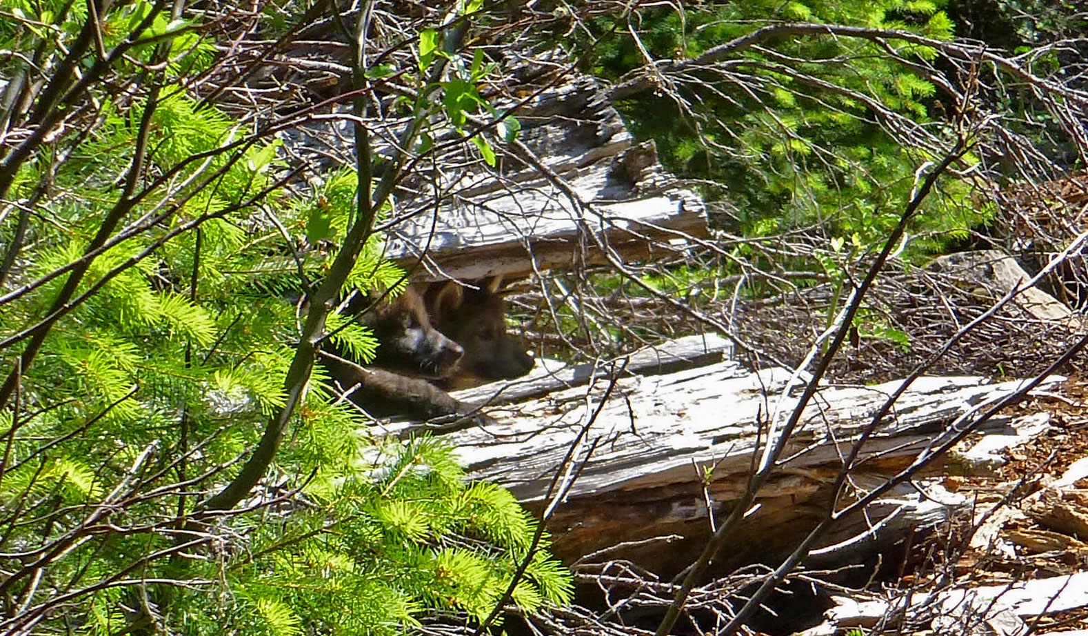 Grey wolf pups in Jackson County in southwestern Oregon, in the United States. OR-7, originally from the Imnaha wolf pack of northeastern Oregon, is believed to be the pup's father pending DNA samples.